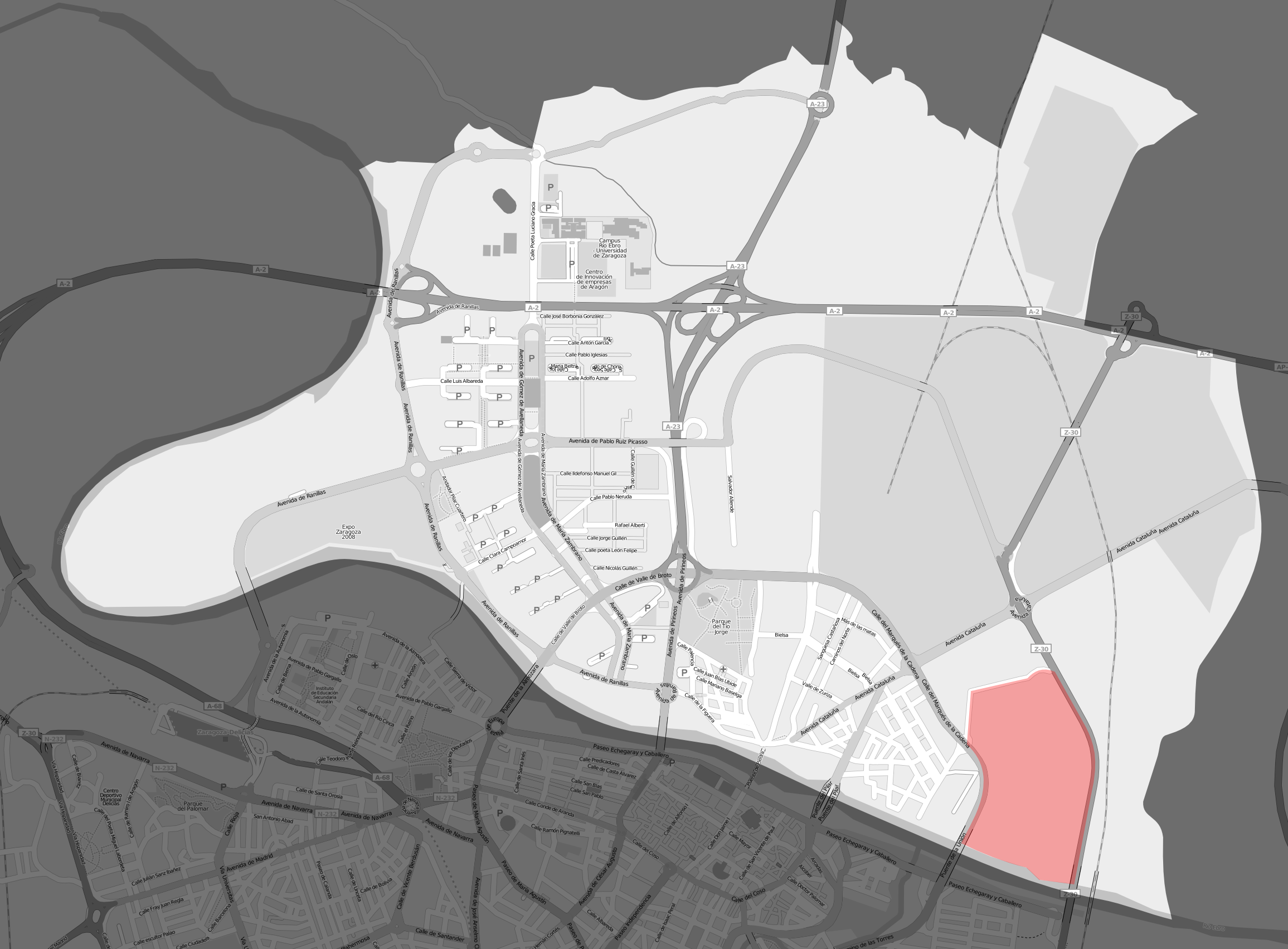 This map may be incomplete, and may contain errors. Don't rely solely on it for navigation.